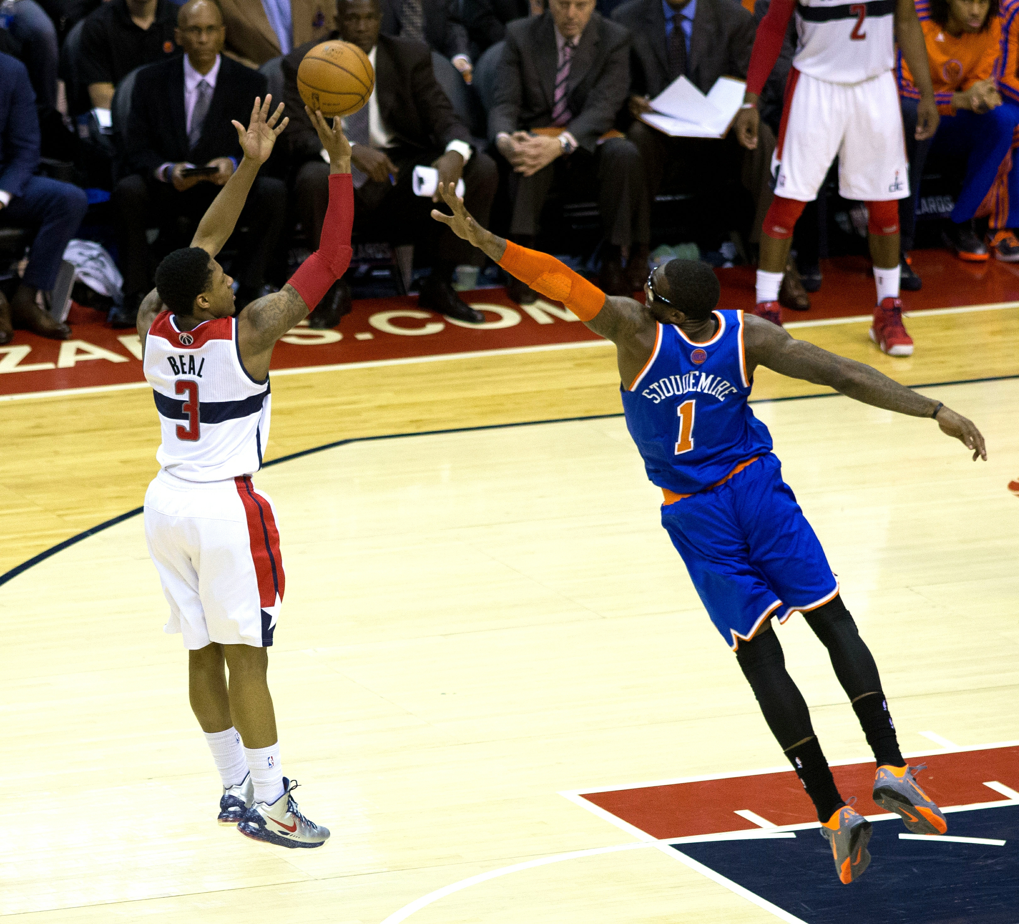 New York Knicks at Washington Wizards March 1, 2013